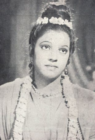 N. C. Vasanthakokilam (1919 - 7 November 1951), South Indian Tamil actress, classical singer, in the film "Krishna Vijayam".